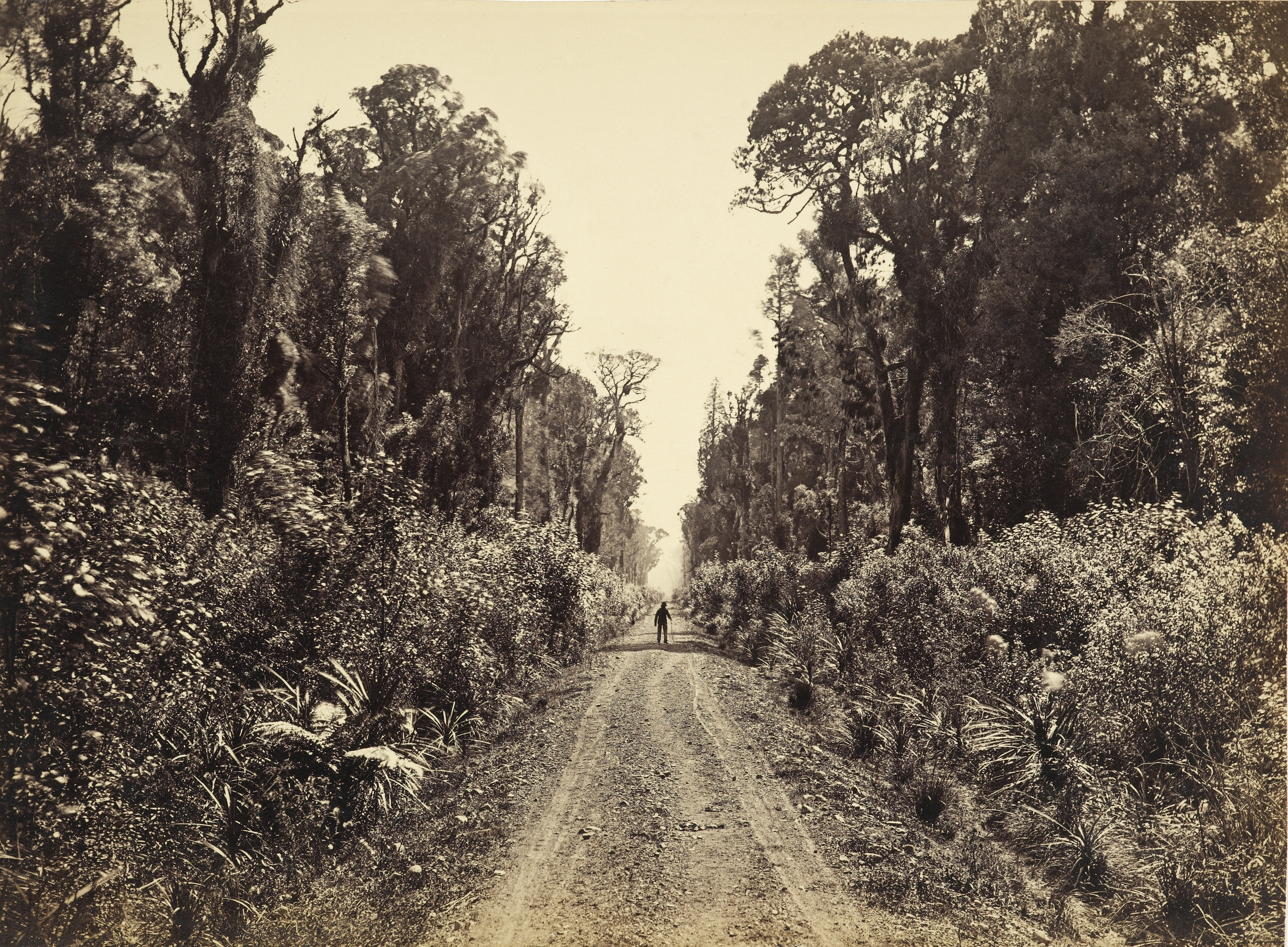 Title Five Mile Avenue, Forty Mile Bush Production Bragge, James (photographer), circa 1875, Eketahuna Medium summary black and white photograph, albumen silver print Materials albumen, silver, paper, mounting board Classification photographic prints, albumen prints, vintage prints, black-and-white prints Technique black and white photography Dimensions Image: 216mm (Height) x 293mm (Width) Mat: 407mm (Height) x 457mm (Width) Credit line Acquisition history unknown Registration number O.000750